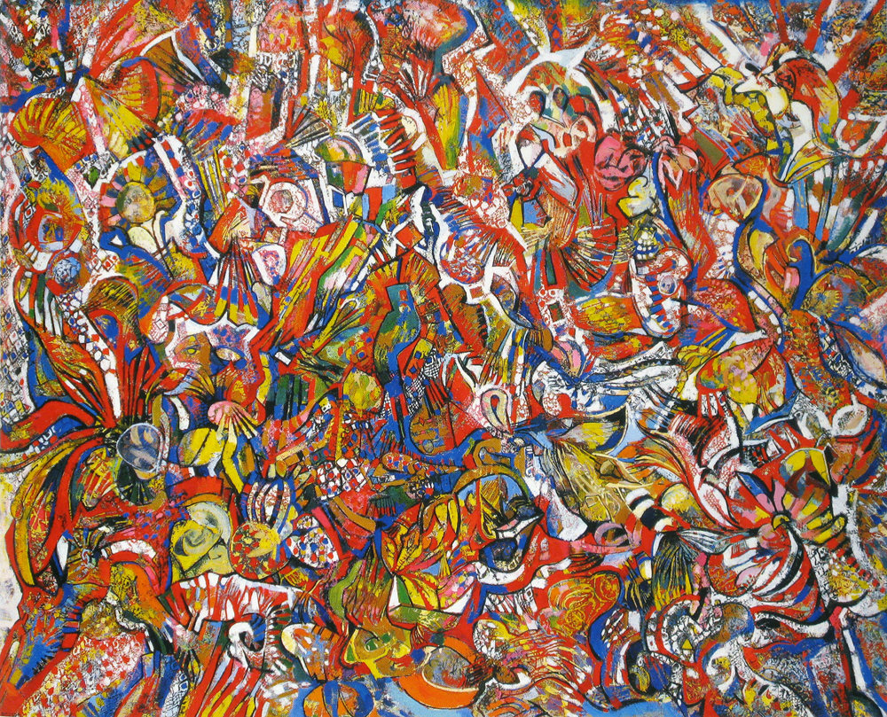 Surrealist painting